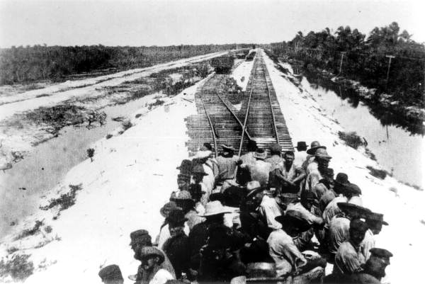 Hundreds of workers on the Florida East Coast Railway's Overseas Extension were lost when a hurricane swept the Keys and battered Miami on October 18th, 1906. img URL